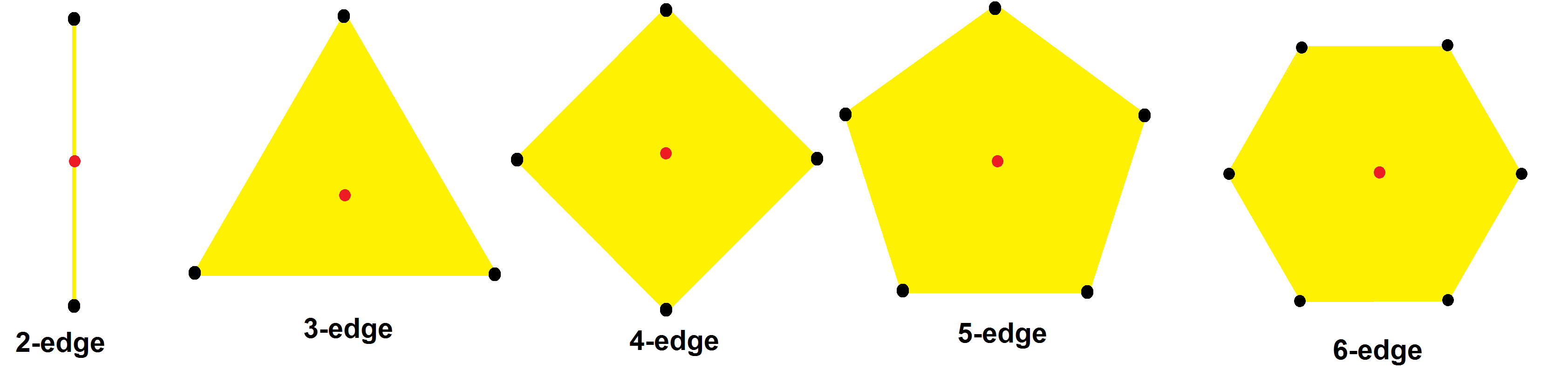 Complex 1-dimensional polytopes as k-edges and regular polygons